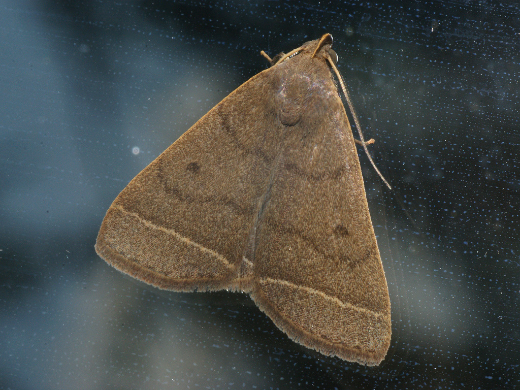 Exemplar found: Russia, Moscow, Mozhaysky District, Bagritskogo str., 25.06.2013, by light Москва, р-н Можайский, ул. Багрицкого, 25.06.2013, на свет